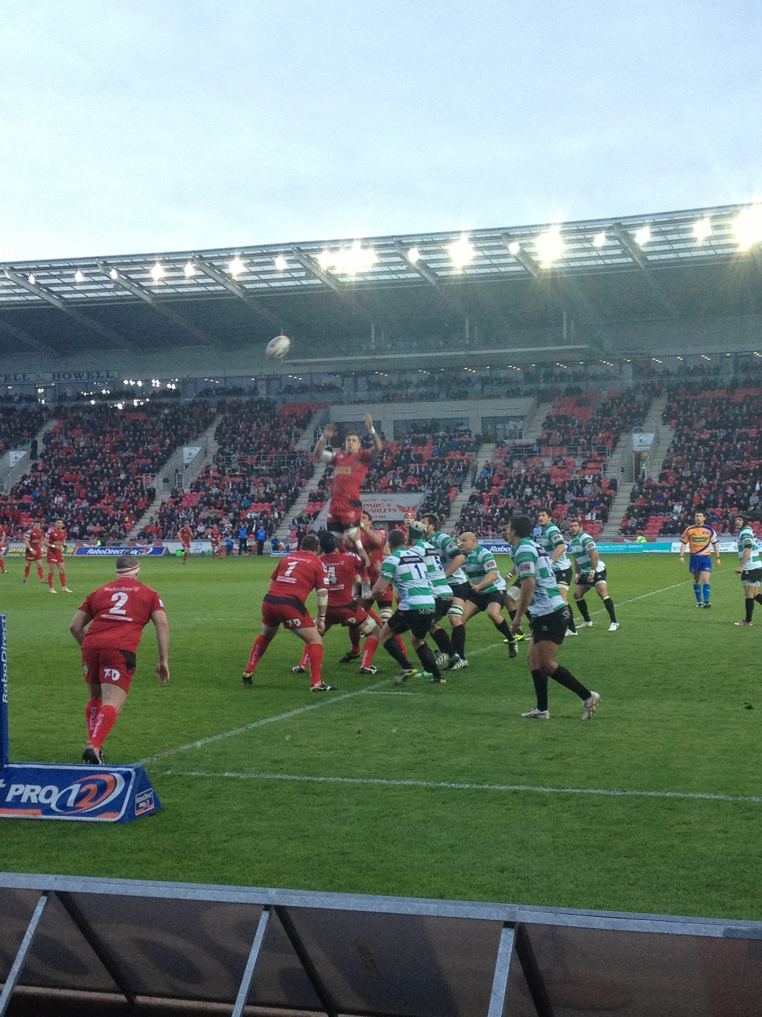 A lineout in the rugby union match between Scarlets and Treviso at Parc y Scarlets, Llanelli as part of the RaboDirect Pro12 season on 3 May 2013